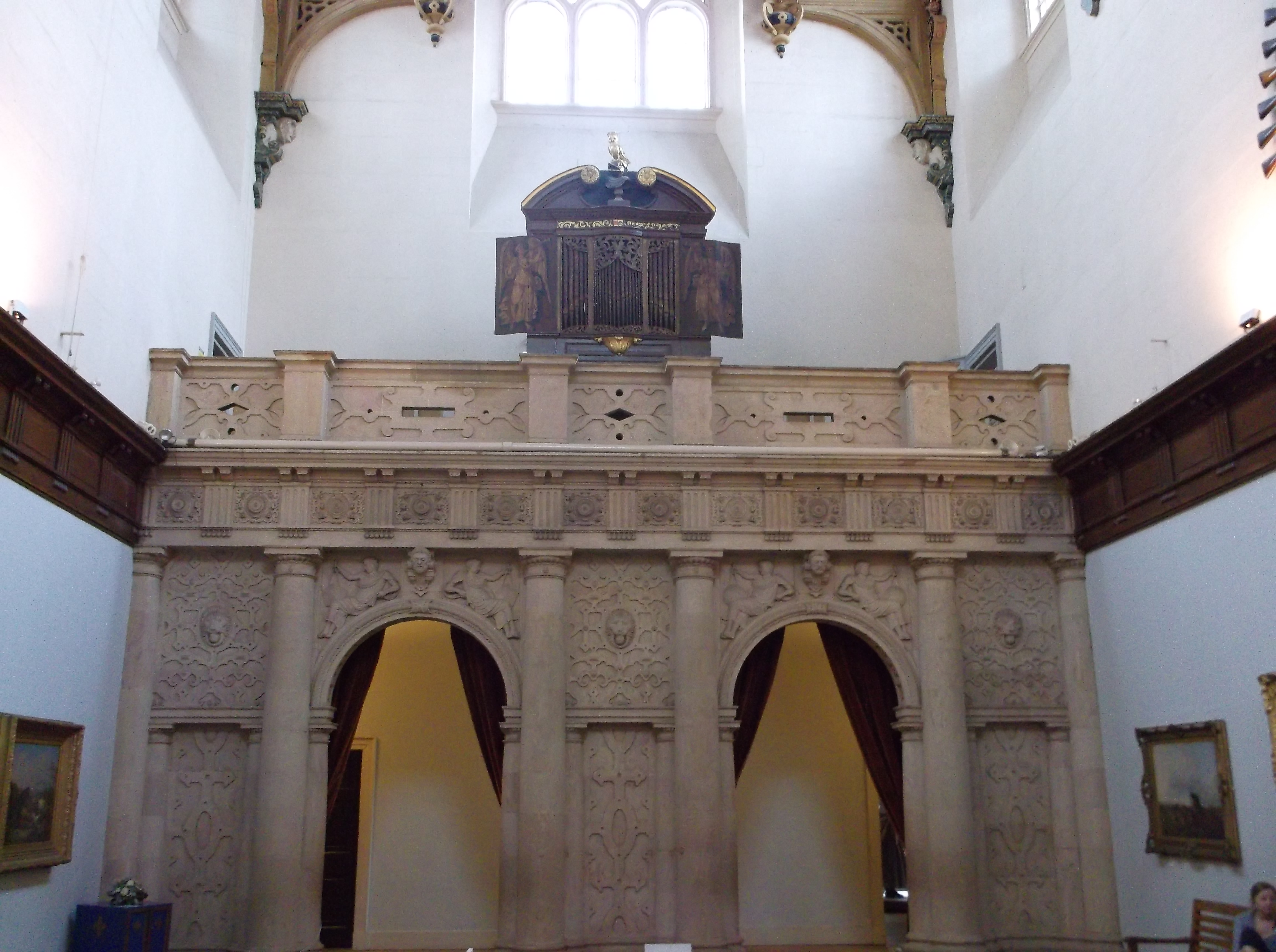 Interior of Wollaton Hall